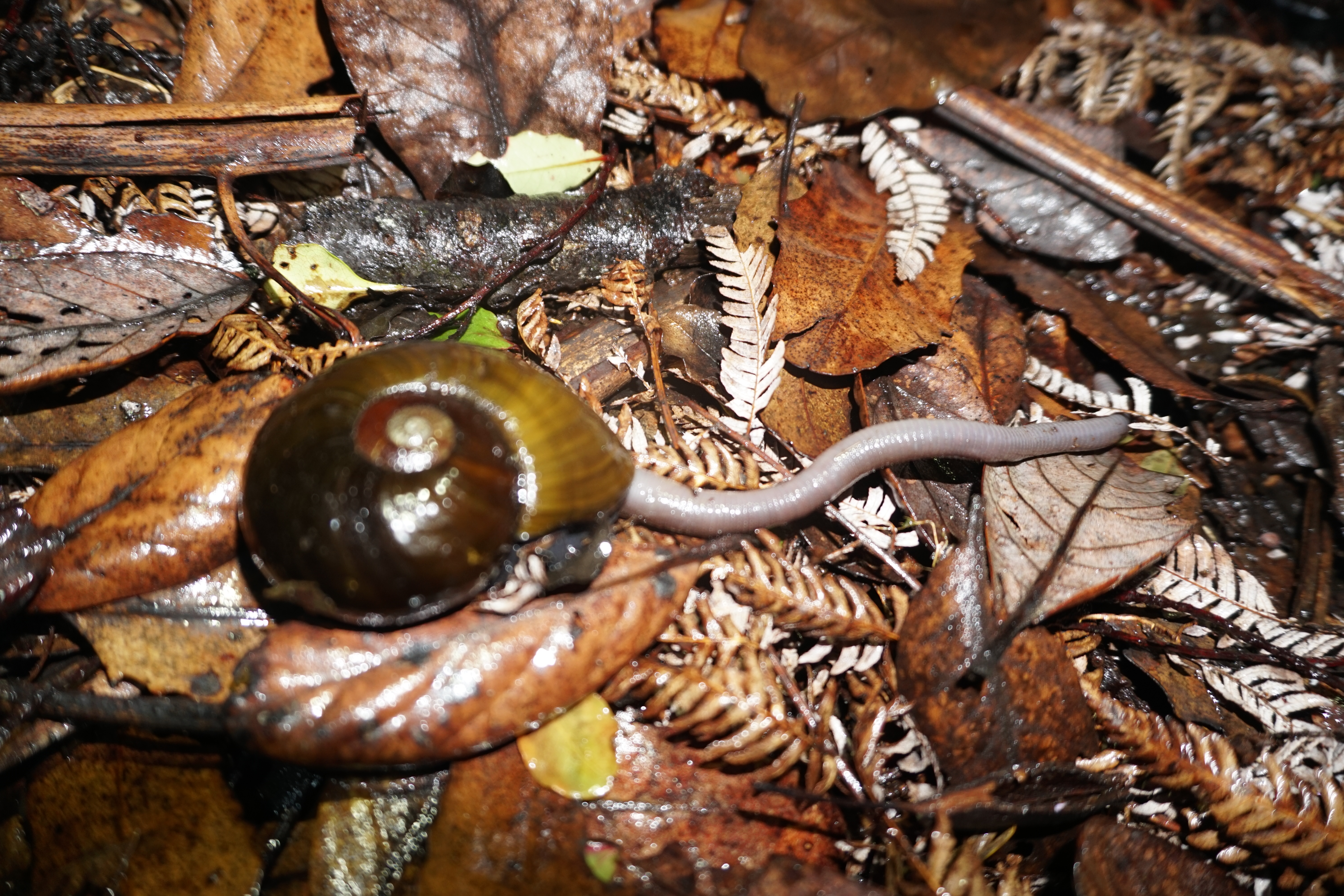 Predatory land snail feeding on an earthworm at Waipoua Forest